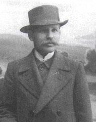 Hebrew musician and teacher Hanina Karchevski